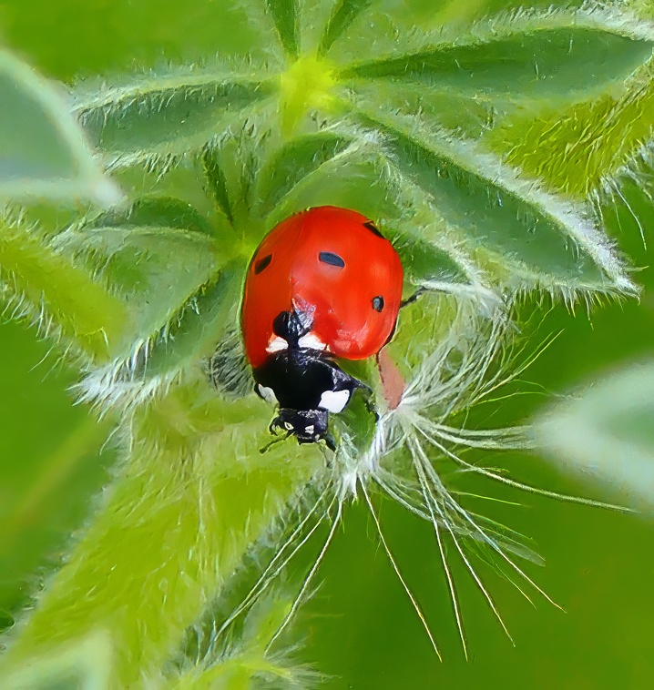 7-Spotted Ladybird / Ladybug , Coccinella septempunctata, Israel